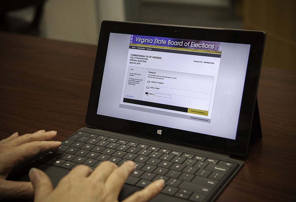 The Microsoft Surface Pro tablet, pictured with a sample ballot, will be used for election purposes for reportedly the first time in June by the city of Charlottesville, Va. See also: Microsoft Tablet Makes Election Debut A Virginia city's primary in June will mark a milestone for Surface Pro. More than two and a quarter centuries after Charlottesville, Va. played a major role in the American Revolutionary War, the historic city of 44,000 will hold a primary election that itself is revolutionary. For the first time, a Microsoft Surface Pro tablet will be used to cast votes when citizens elect state and local candidates on June 11, according to municipal officials. The Intel-powered Surface Pro is planned to be used in two precincts. Up until this week, a special election in April was marked for the milestone, but the city has decided that the promise of a better turnout for a primary would provide officials with the proper amount of data and feedback if they are to move forward on a grand scale.